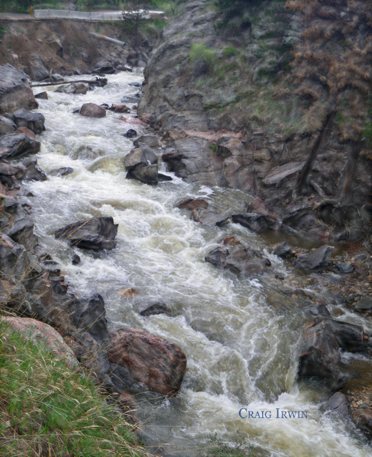 Left Hand Creek outside Boulder Colorado Photo: Craig Irwin